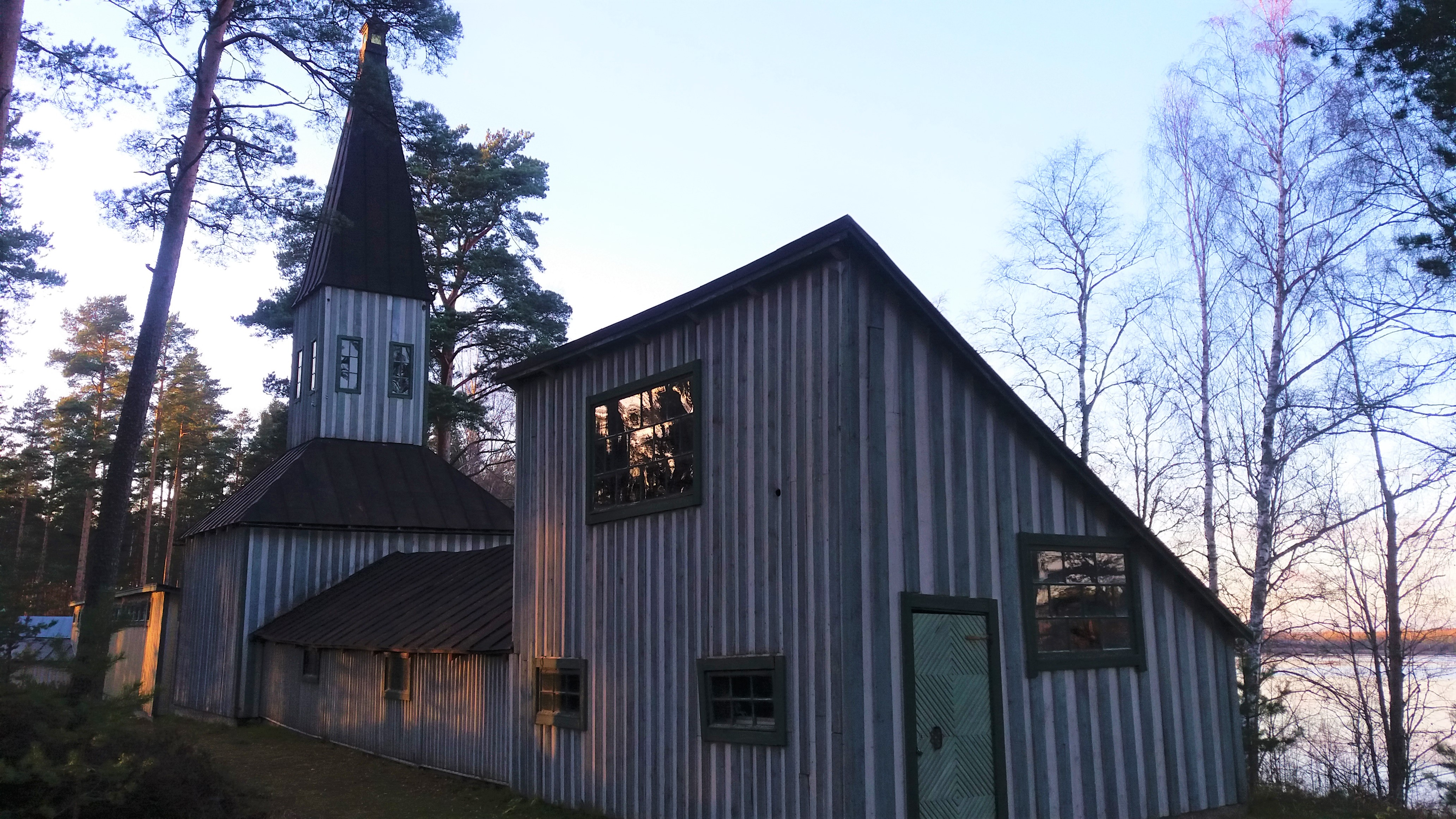 The main building of the Maahengen temppeli (The Tempel of the Rural Spirit), a part of the Emil Cedercreutz Museum in Harjavalta, Finland. It was completed in 1916.